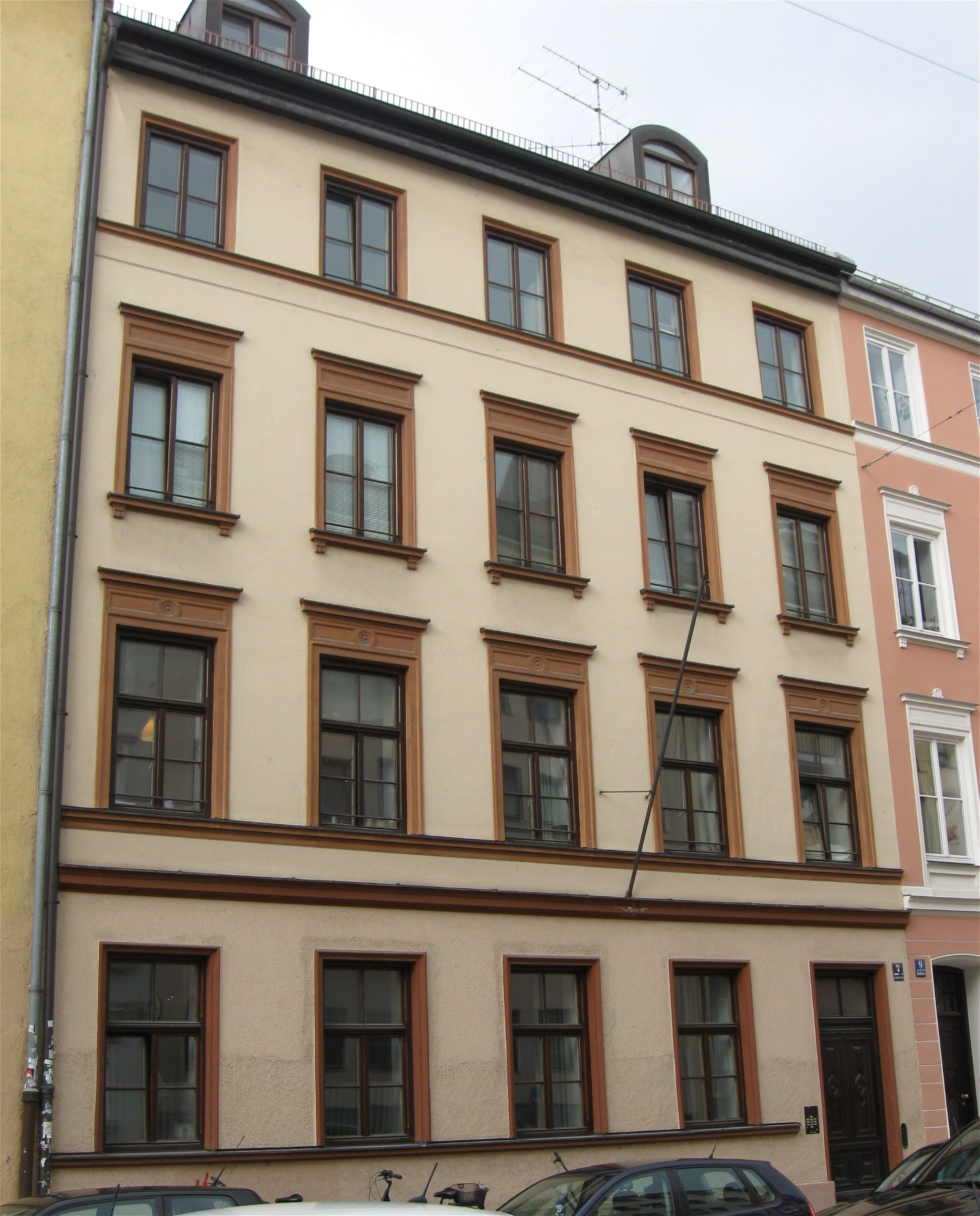 Adalbertstraße 7; Mietshaus, viergeschossiger Satteldachbau, ursprünglich in Neurenaissanceformen, von Max Verst, 1864, nach Kriegszerstörung Fassade vereinfacht in klassizisierenden Formen wieder errichtet, 1983 teilerneuert; bildet Gruppe mit Nr. 9.